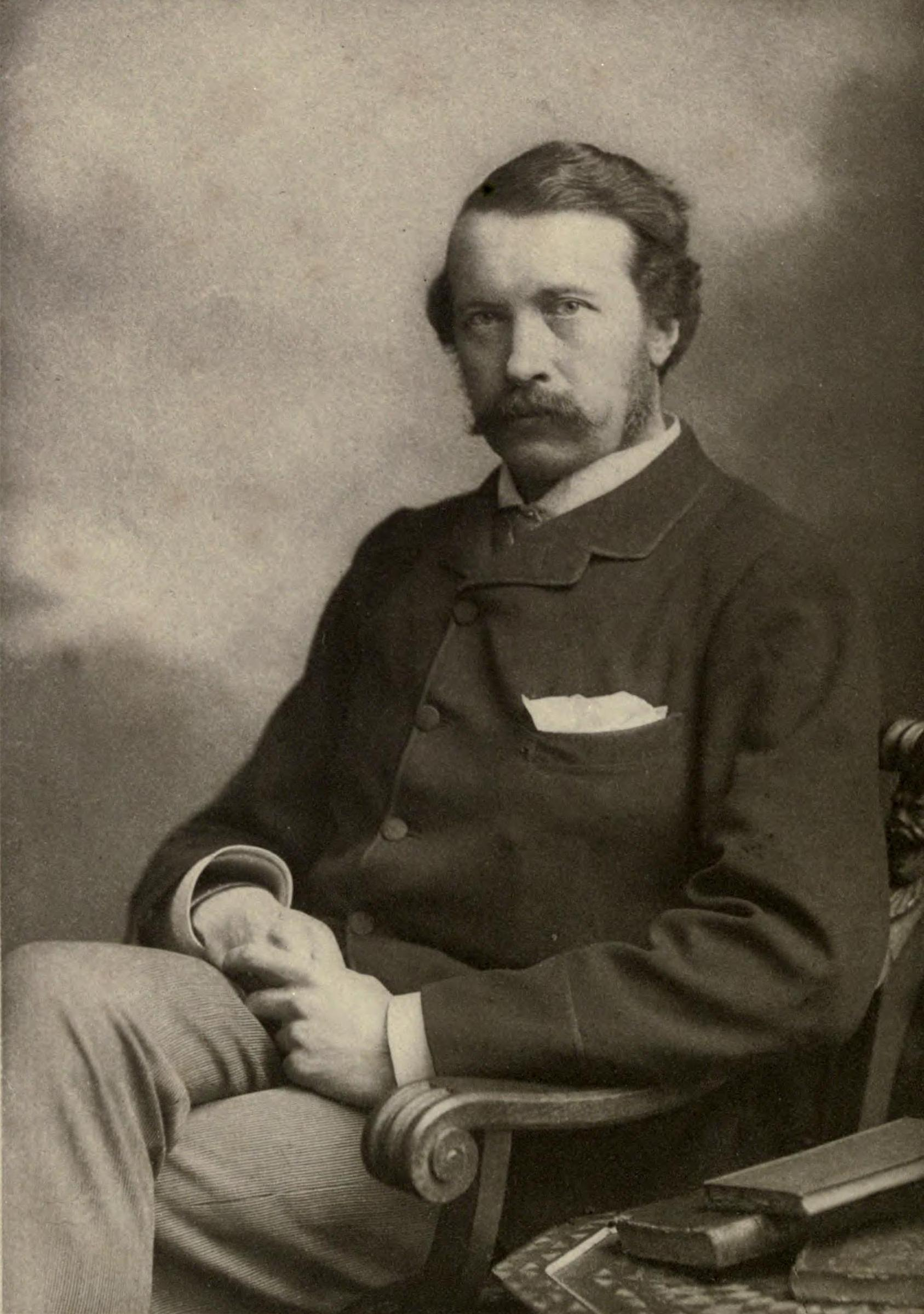 George John Romanes FRS (20 May 1848 – 23 May 1894) was a Canadian-born English evolutionary biologist and physiologist who laid the foundation of what he called comparative psychology, postulating a similarity of cognitive processes and mechanisms between humans and other animals. Photograph by Elliott & Fry.